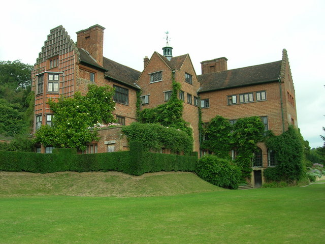 Chartwell Family home of Sir Winston Churchill, now in the care of the National Trust.